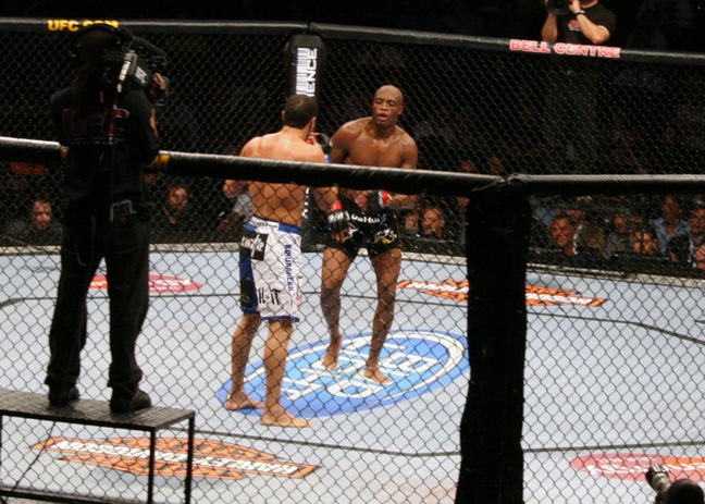 Anderson Silva vs Thales Leites at UFC 97